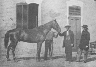 Stonewall Jacksons Pferd Old Sorrel/Little Sorrel